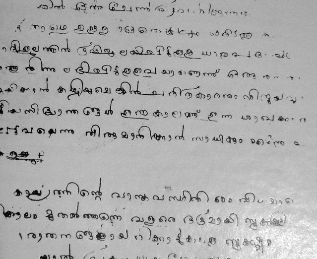 Handwriting of A. R. Raja Raja Varma from his book Kerala Panineeyam